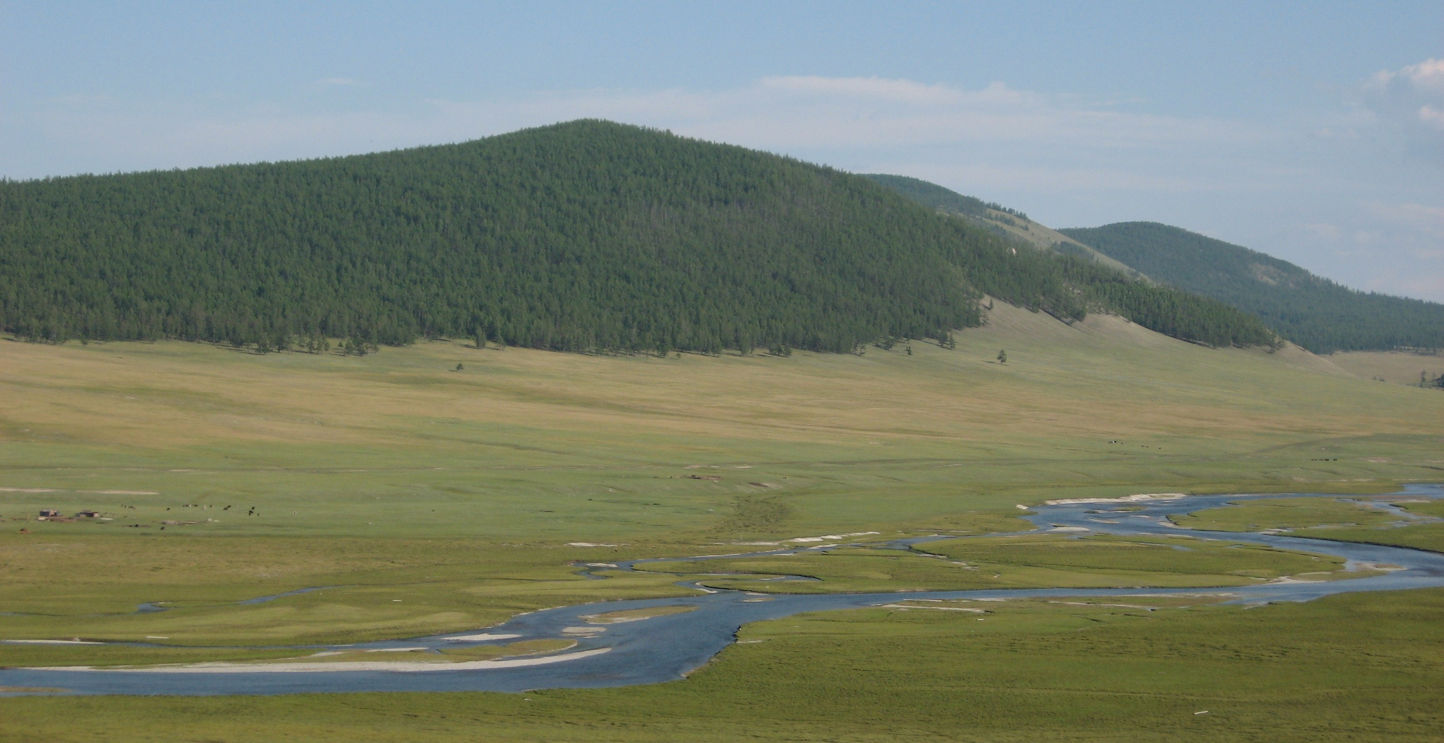 Egiin Gol, some km south of Hatgal. Direction of view is roughly southward.